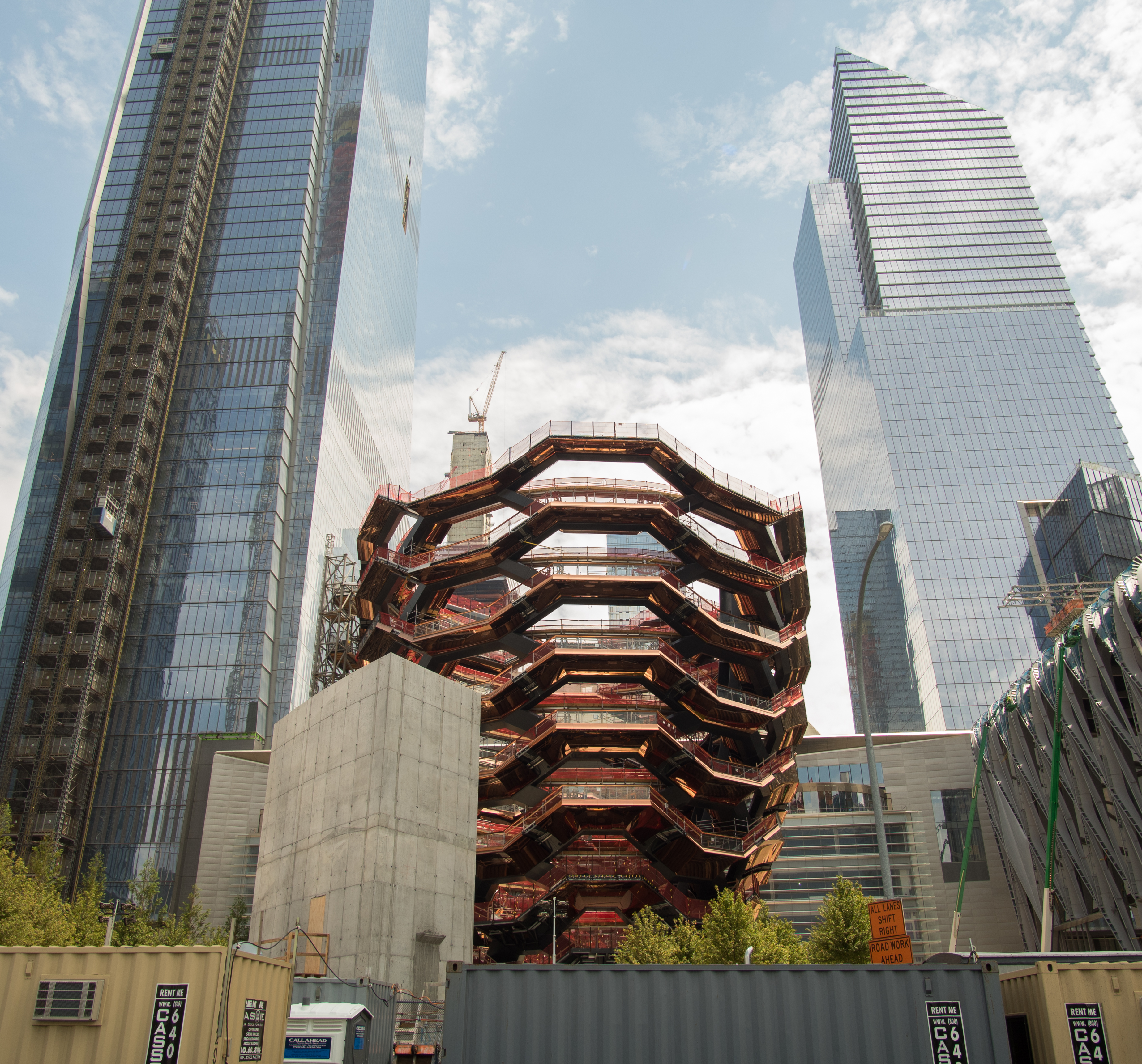 Hudson Yards "Vessel" structure under construction, viewed from 11th Ave.